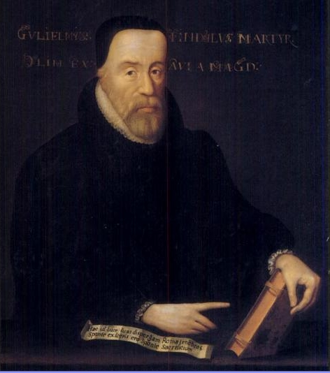 Anonymous early portrait of William Tyndale now in Hertford College, Oxford